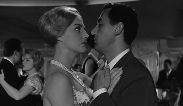 screen from the Italian film Il vedovo (1959)